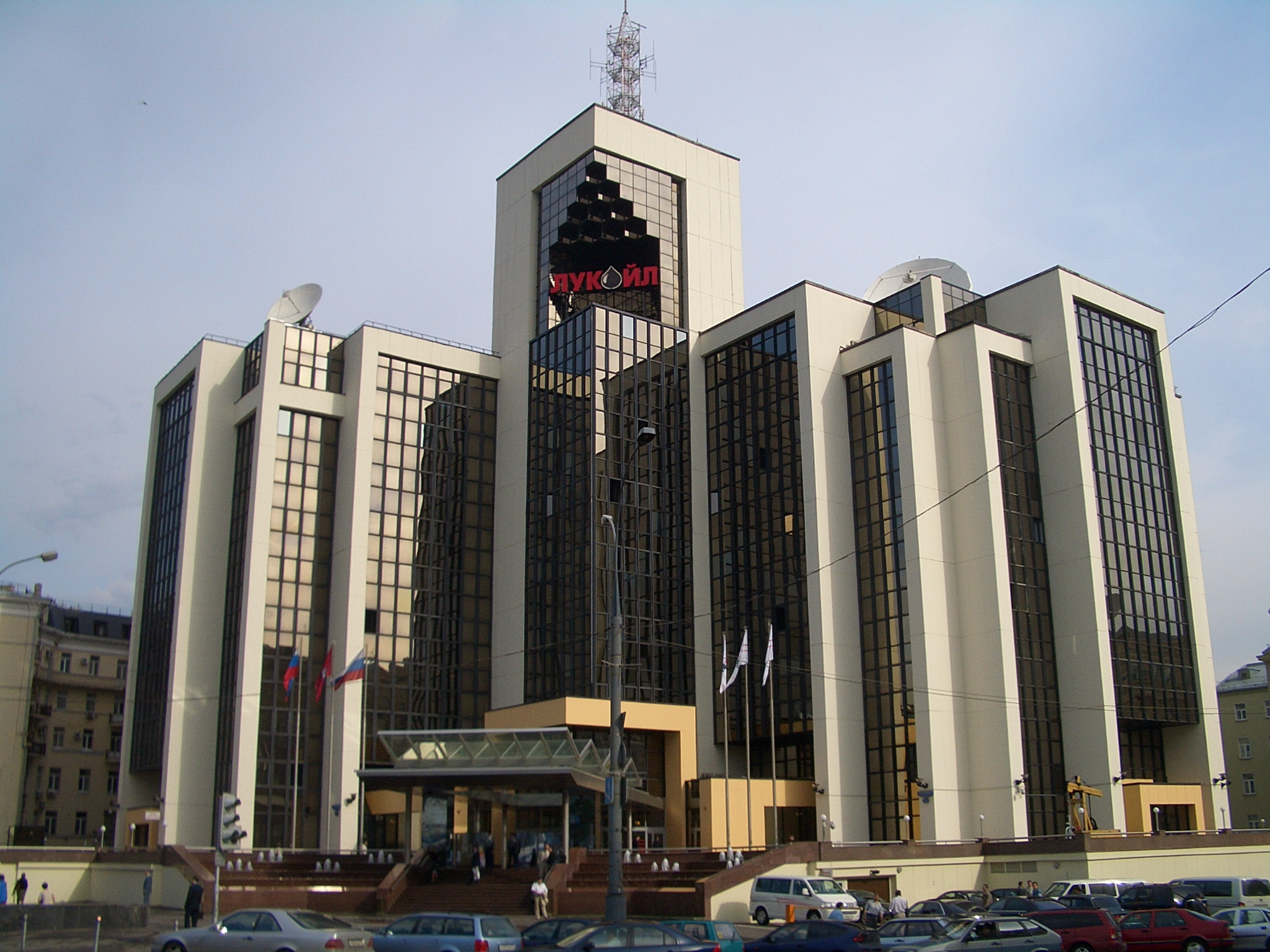 Lukoil Headquarters in Moscow. (Corner of Sakharov Ave. and Sretensky Blvd.)